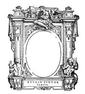 Illustratio from "Le Vite" by Giorgio Vasari, edition of 1568. For the artist portrayed see filename